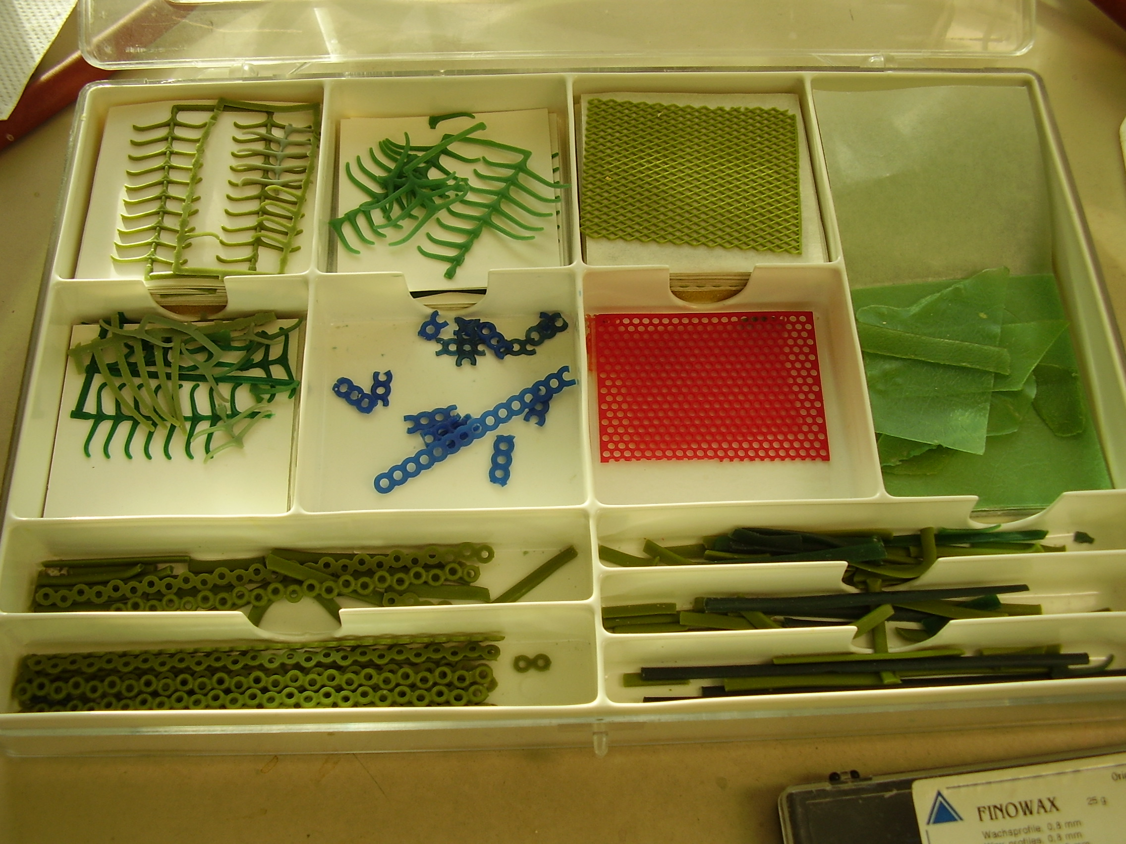 Modellgussprothese